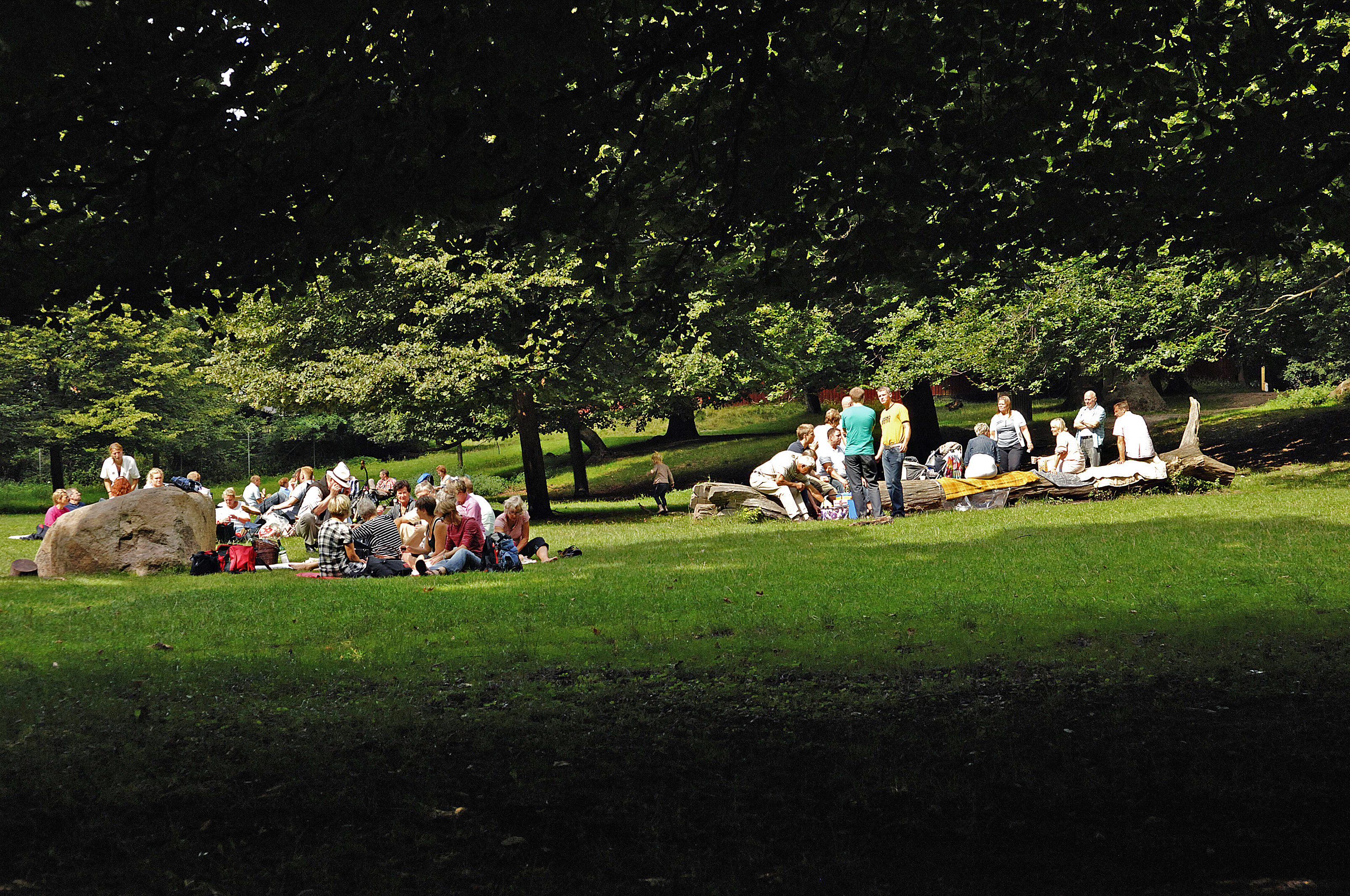 Picnic at the amusement park Bakken north of Copenhagen.